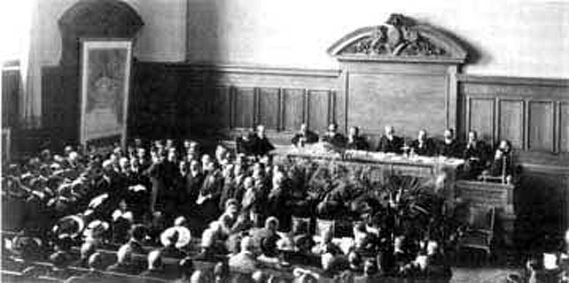 Opening ceremony of the Olympic Congress 1913 in Lausanne photography, adapted reproduction, no restrictions on use Copyright: free of charges